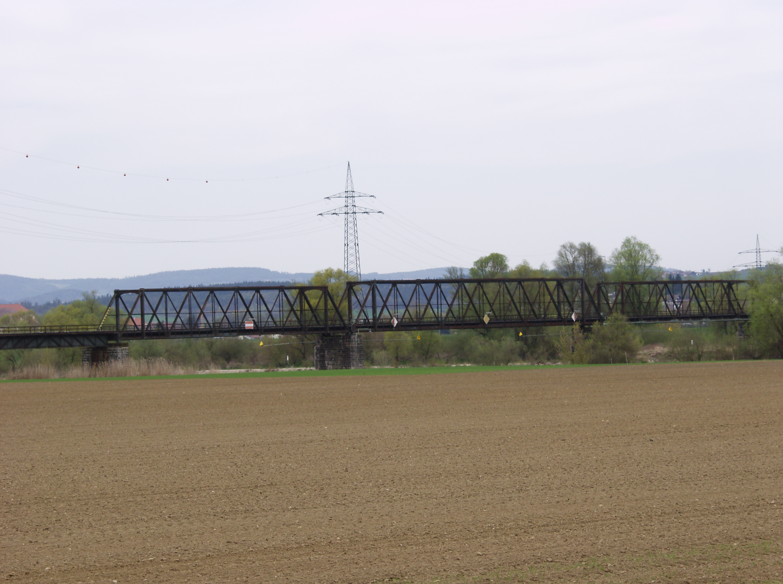 Iron through truss railway bridge over the river Danube near Bogen ( Bavaria)